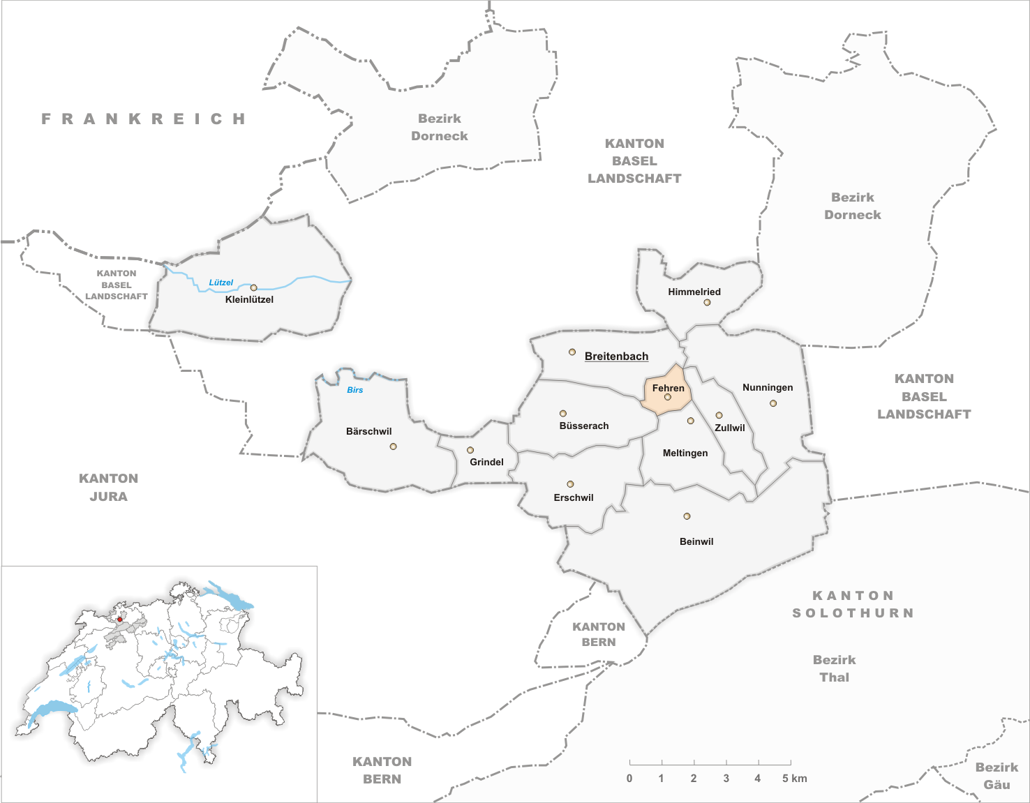 Municipality Fehren